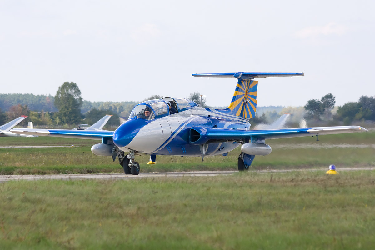 Aero L-29 Delphin